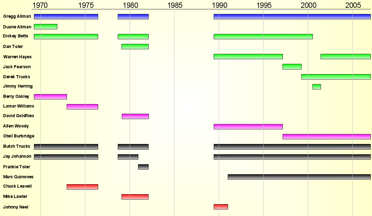 Évolution du groupe The Allman Brothers Band.